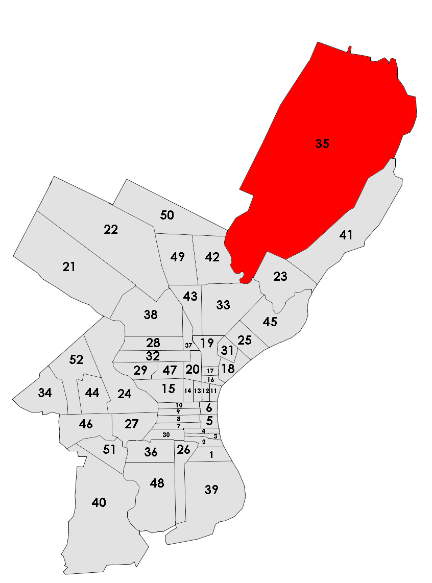 Philadelphia ward map, 1950, with the 35th ward highlighted